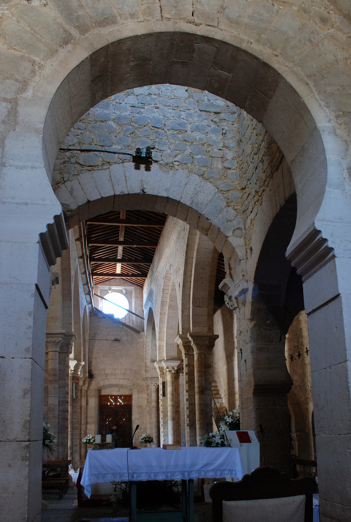 Church Santa María de Wamba (Valladolid)